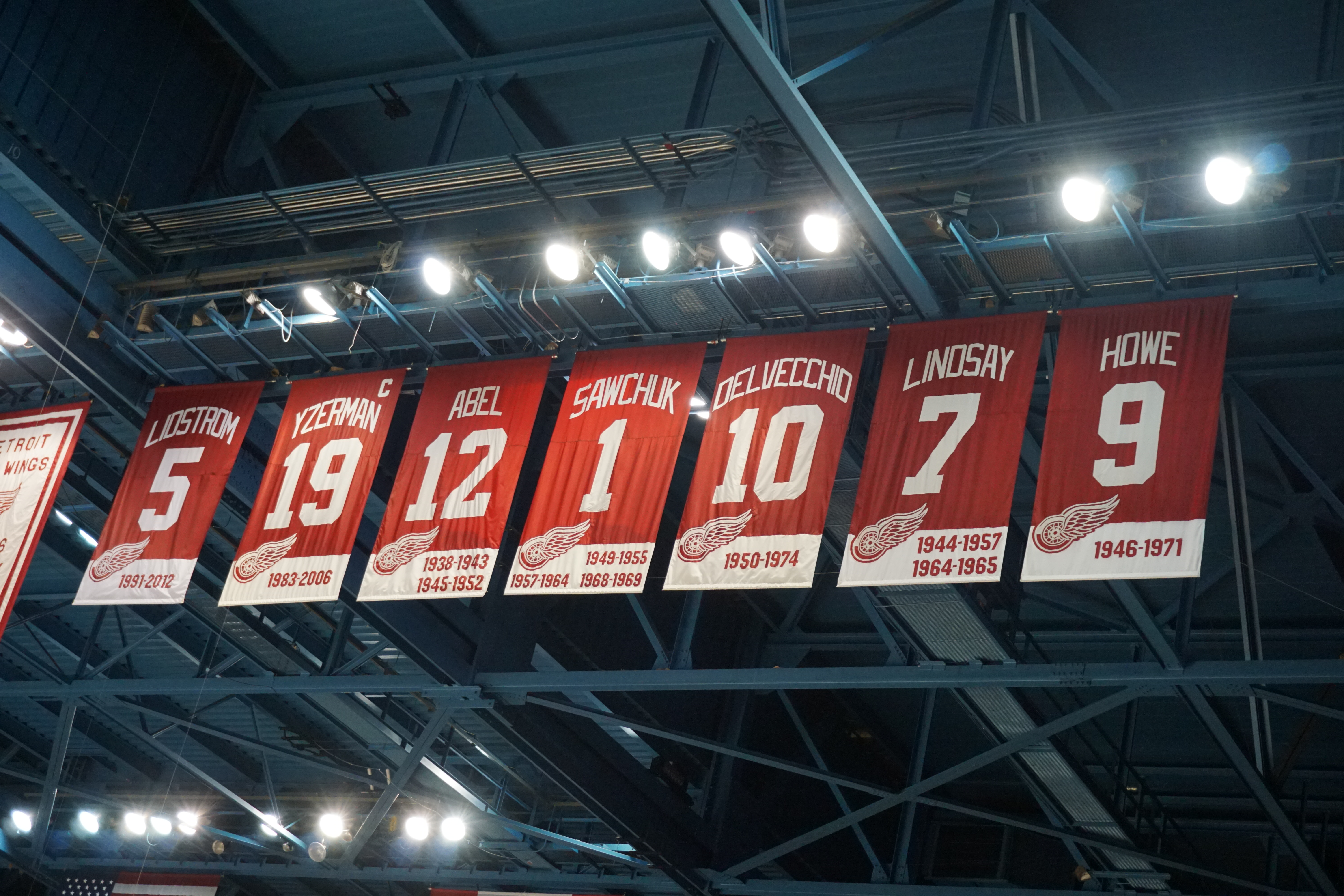 The Detroit Red Wings retired numbers on display at Joe Louis Arena in Detroit, Michigan (United States).